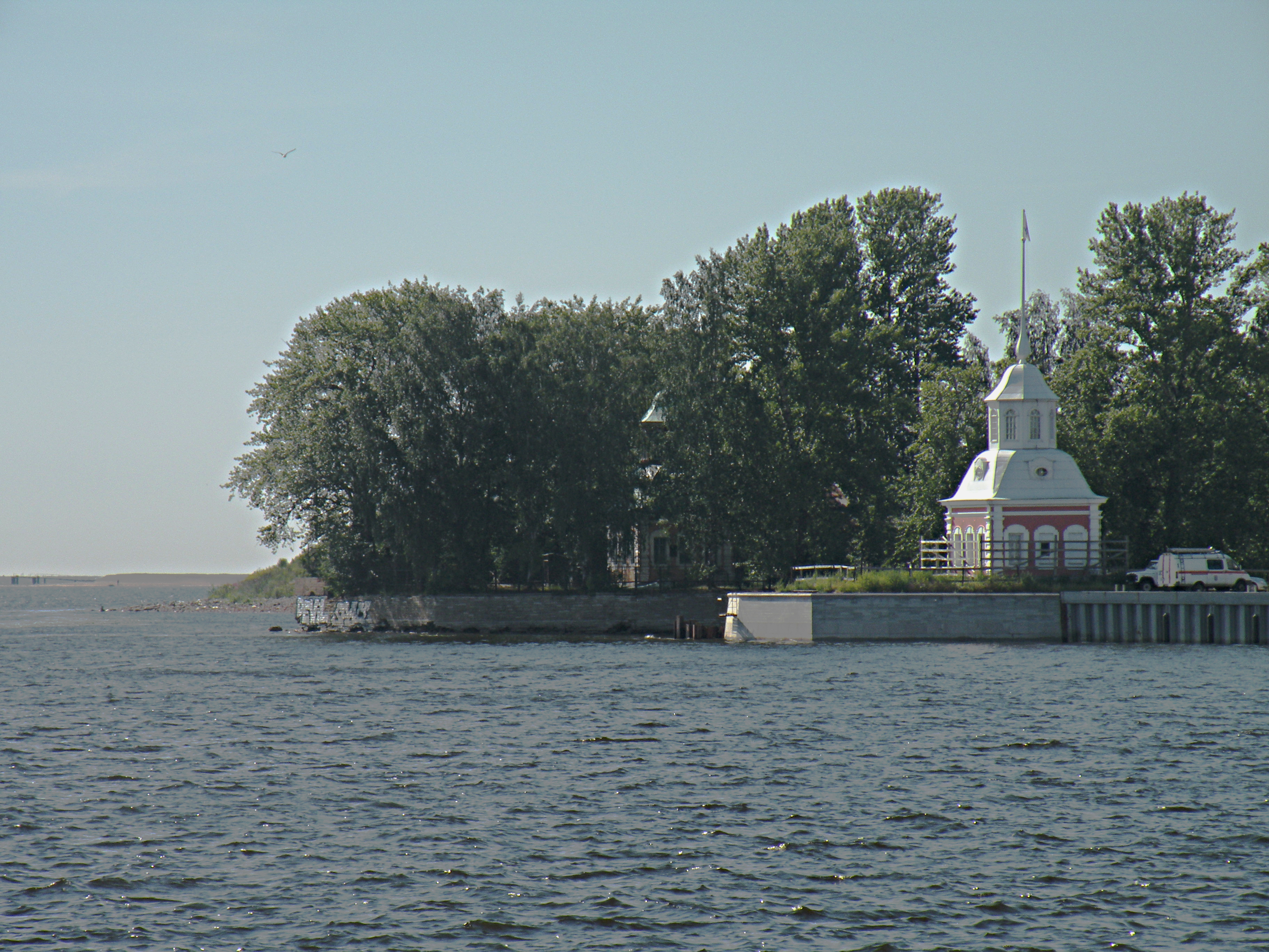 Galley harbour_SPb